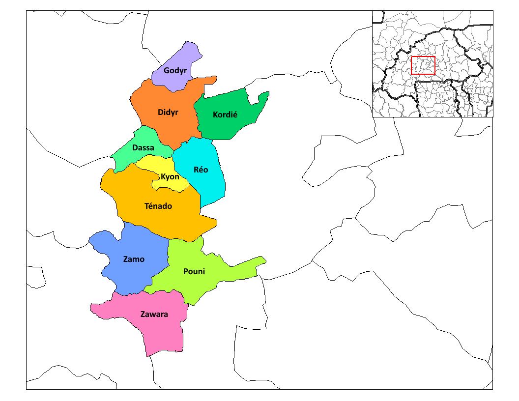 This map has been uploaded by Osiris fancy from to enable the Wikimedia Atlas of the World. Original uploader to was Rarelibra. Osiris fancy is not the creator of this map. Licensing information is below. Map of the departments of Sanguie province in Burkina Faso. Created by Rarelibra 03:34, 30 September 2006 (UTC) for public domain use, using MapInfo Professional v8.5 and various mapping resources.